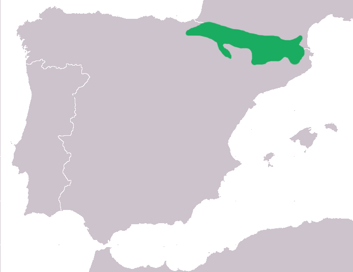 Range map of Calotriton asper.